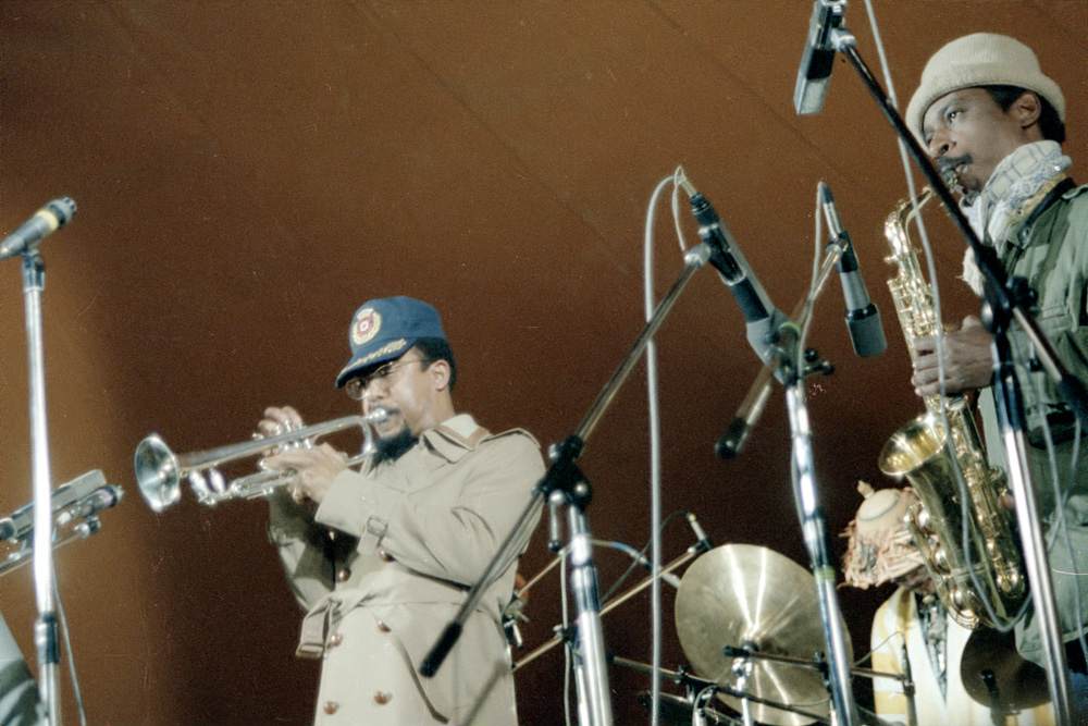 Art Ensemble of Chicago, New Jazz Festival Moers (Moers Festival) 1978 left to right: Lester Bowie, „Famoudou“ Don Moye (half covered), Roscoe Mitchell